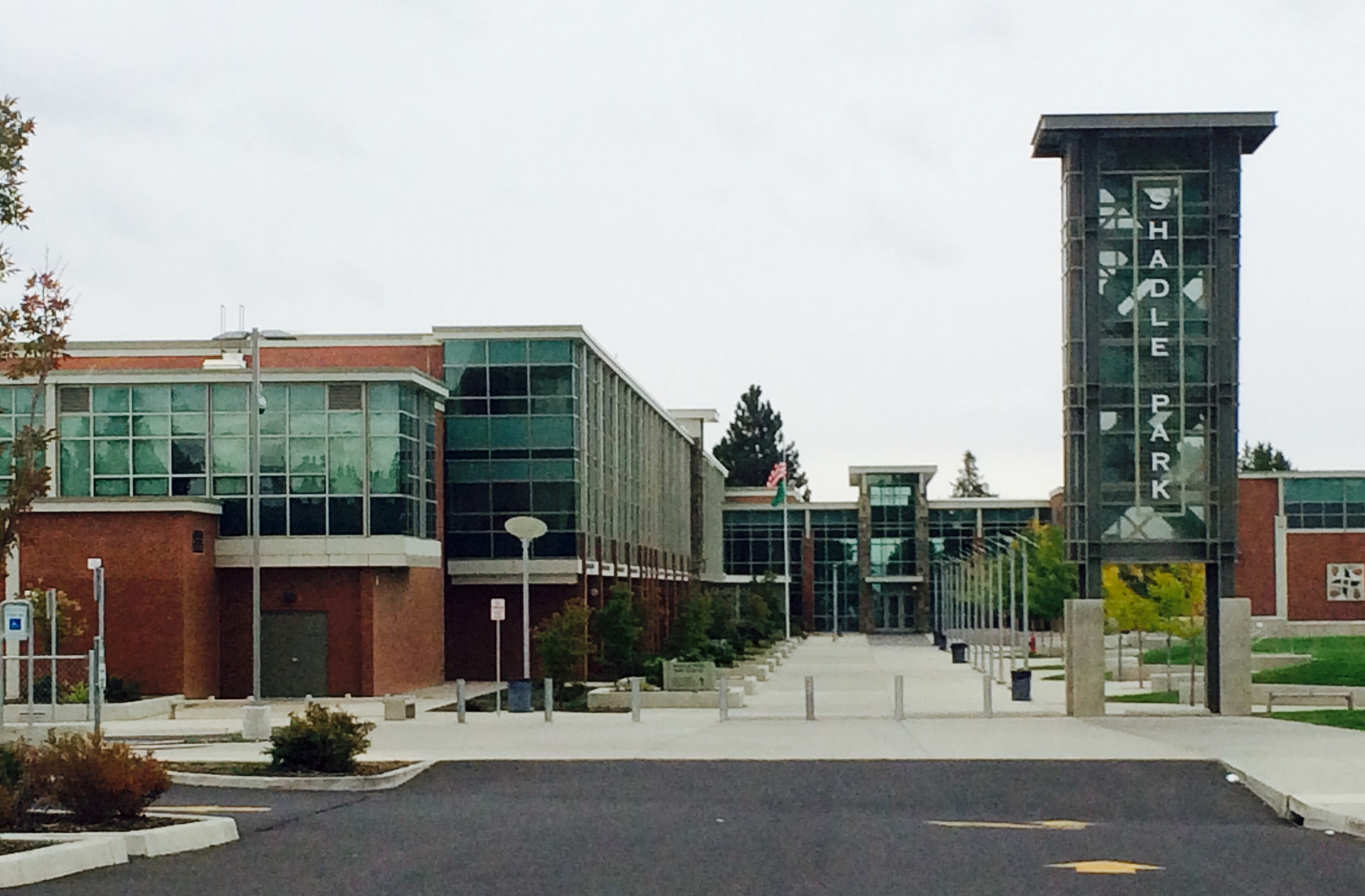 Shadle Park HS, north entry